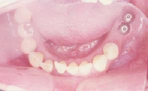 2 Implants at 36 und 37